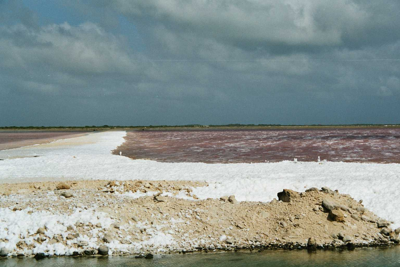 Solar Salt plant on Bonaire, Netherlands Antilles. Photo by V.C.Vulto, 2002.